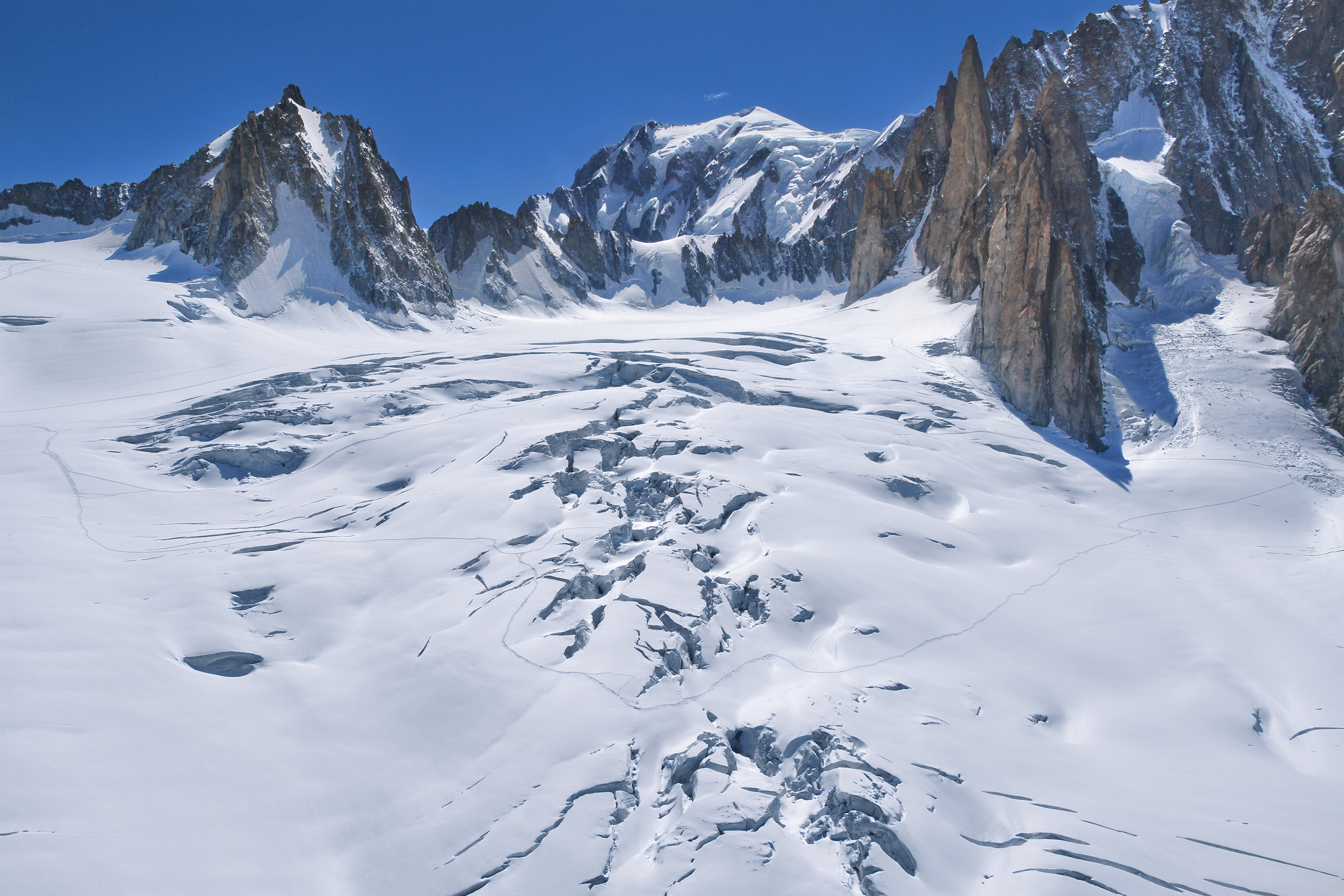 Glacier du Géant and Mont Blanc in the background in the end of 2010 July.